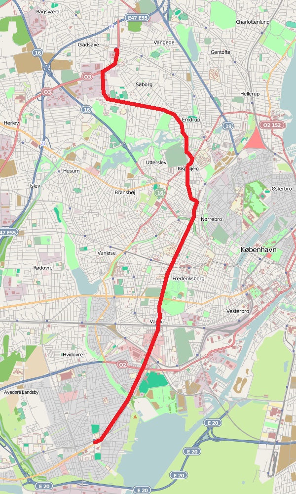 Map of the Copenhagen bus line 4A between Buddinge Station and Friheden Station as of 13 October 2019. This map may be incomplete, and may contain errors. Don't rely solely on it for navigation.